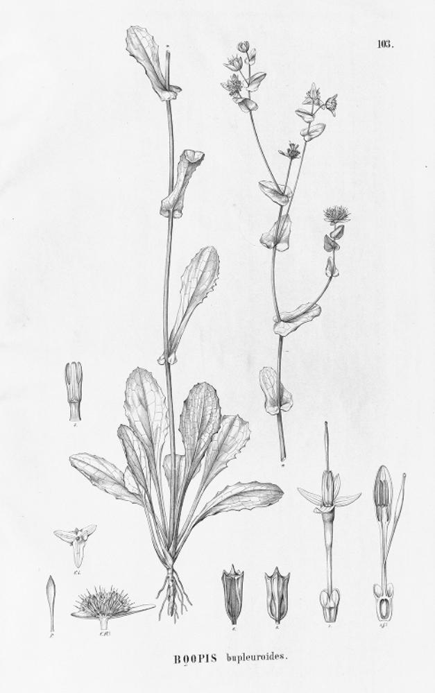 Illustration of Boopis bupleuroides